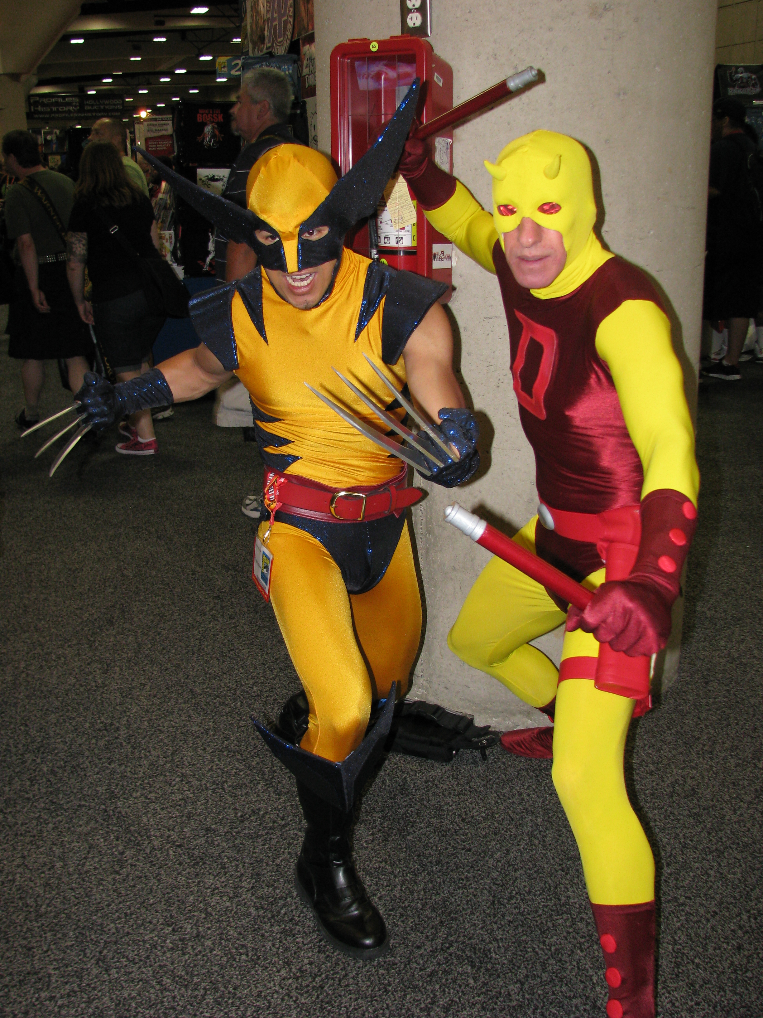 A cosplay of Wolverine and Daredevil Cosplay at San Diego Comic Con 2012.